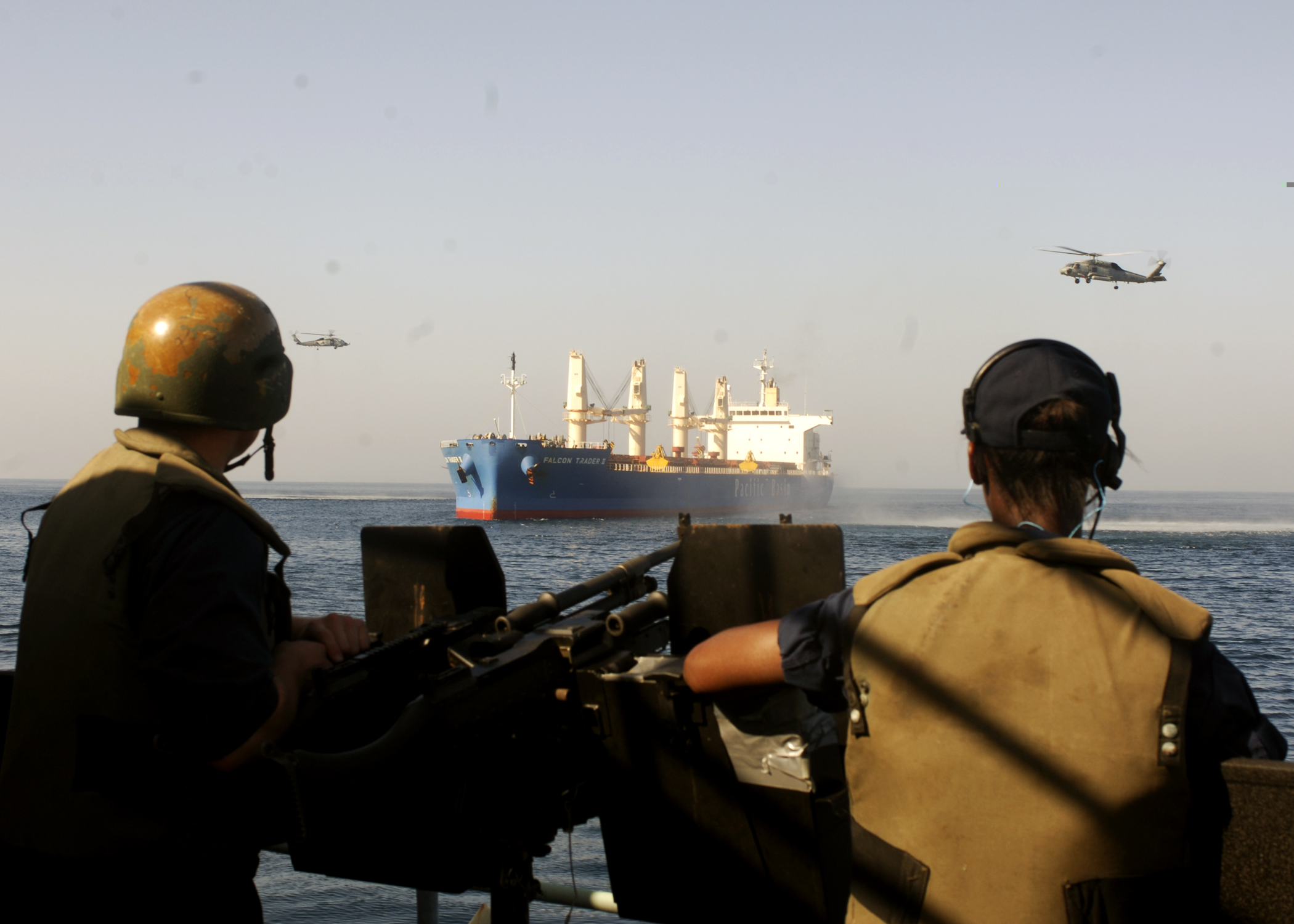 ARABIAN SEA (March 24, 2011) Sailors man a dual-mounted M-240 machine gun aboard the guided-missile cruiser USS Leyte Gulf (CG 55) as an SH-60 Sea Hawk helicopters from Anti-Submarine Squadron (HS) 11 and Helicopter Anti-Submarine Squadron Light (HSL) 48 embarked aboard the aircraft carrier USS Enterprise (CVN 65) and Leyte Gulf hover near the Philippine-flagged merchant vessel M/V Falcon Trader II after a distress call reported it had been boarded by pirates. Leyte Gulf and Enterprise continue to support Operation Enduring Freedom and regional maritime security operations as part of their deployment to the U.S. 5th Fleet area of responsibility. (U.S. Navy photo Mass Communication Specialist 3rd Class Robert Guerra/Released)